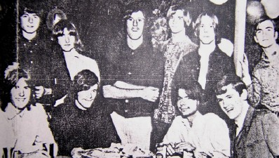 Photograph of The Weeds and Scatter Blues (American bands) together, 1966, Las Vegas, NV